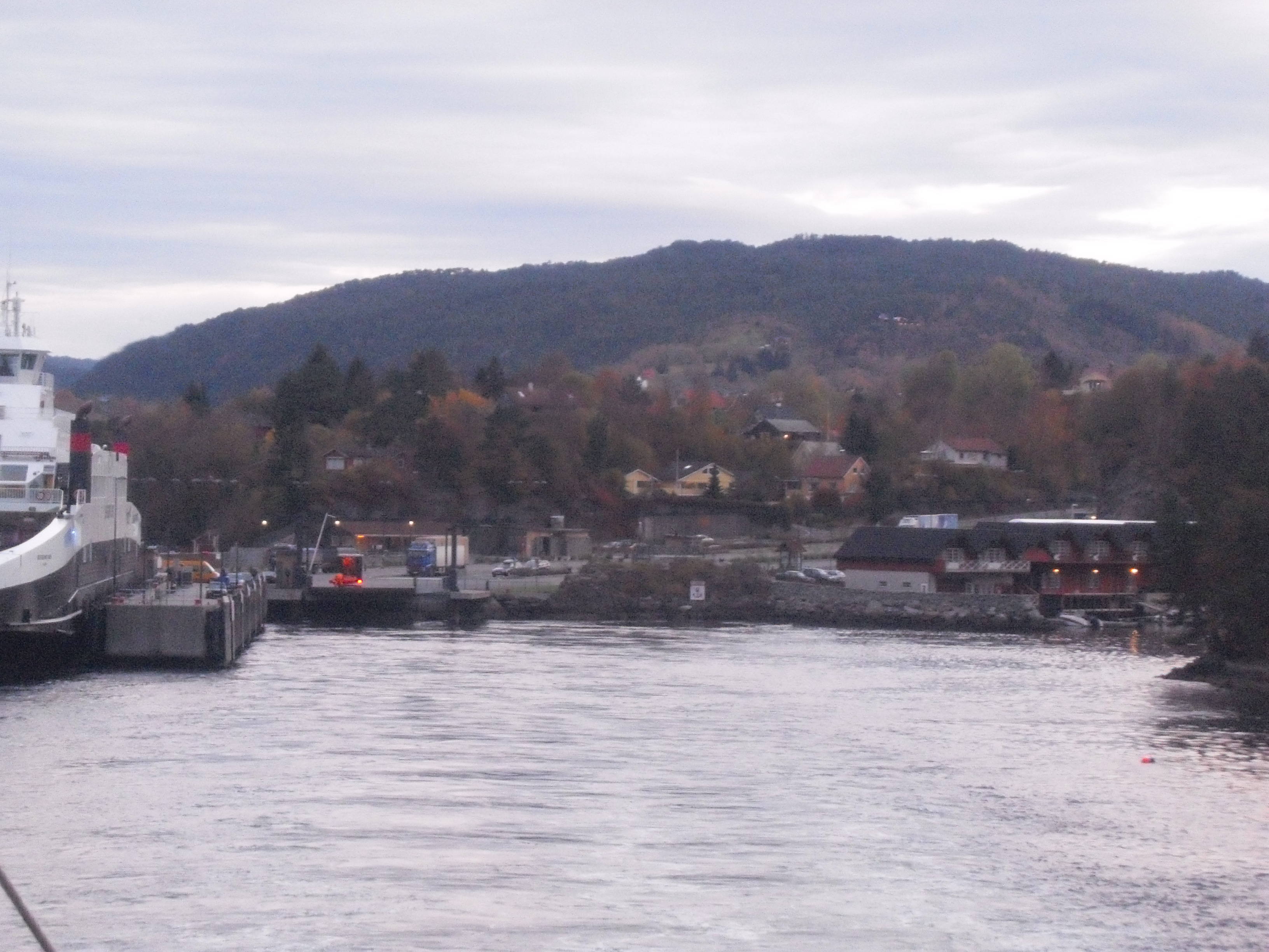 The ferry slip at Halhjem in Os municipality, Hordaland, Norway